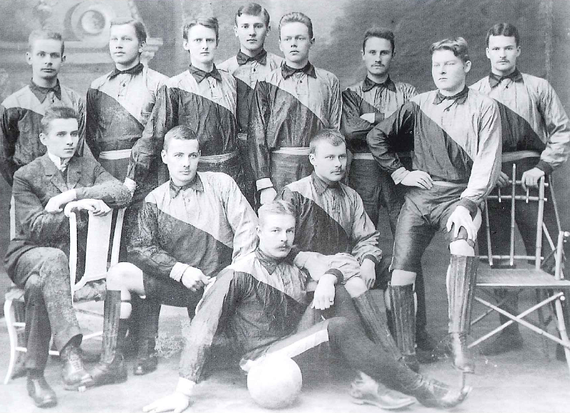 Polyteknikkojen Urheiluseura squad that won Finnish championship in 1909.